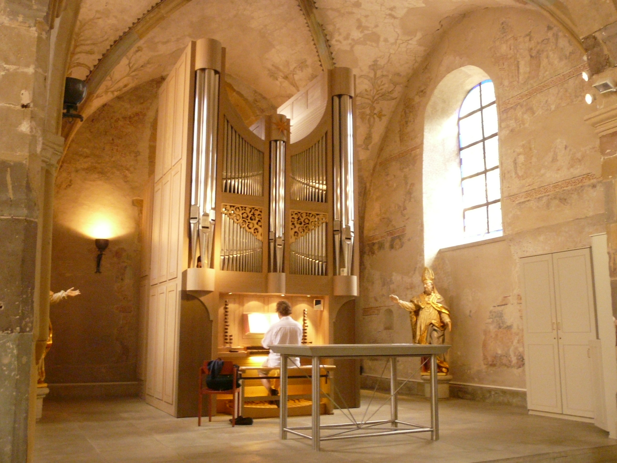 Pipe organ in old St. Laurentius church in Diekirch, Luxembourg.